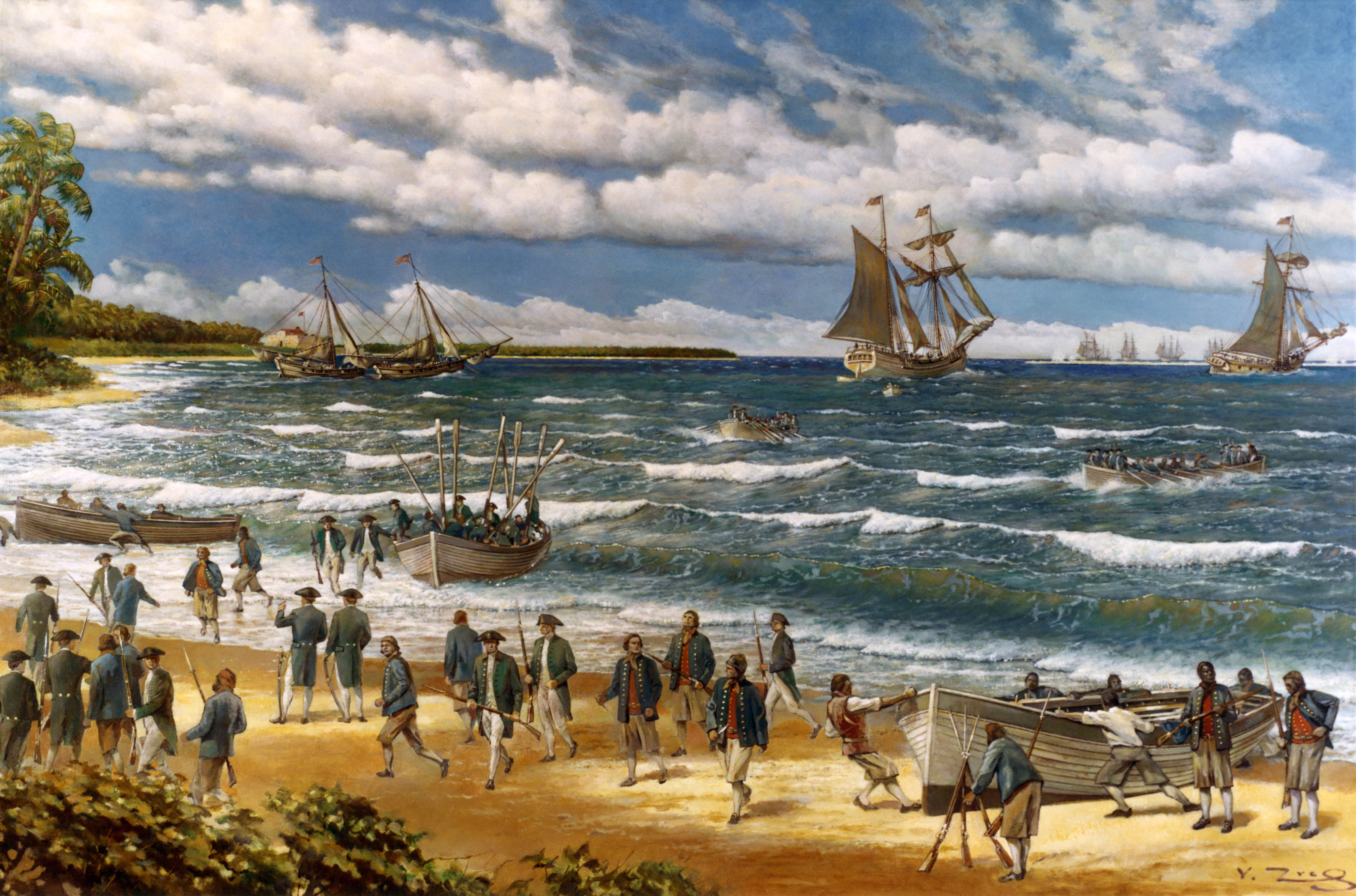 New Providence Raid, March 1776 Oil painting on canvas by V. Zveg, 1973, depicting Continental Sailors and Marines landing on New Providence Island, Bahamas, on 3 March 1776. Their initial objective, Fort Montagu, is in the left distance. Close off shore are the small vessels used to transport the landing force to the vicinity of the beach. They are (from left to right): two captured sloops, schooner Wasp and sloop Providence. The other ships of the American squadron are visible in the distance. depiction of the Battle of Nassau